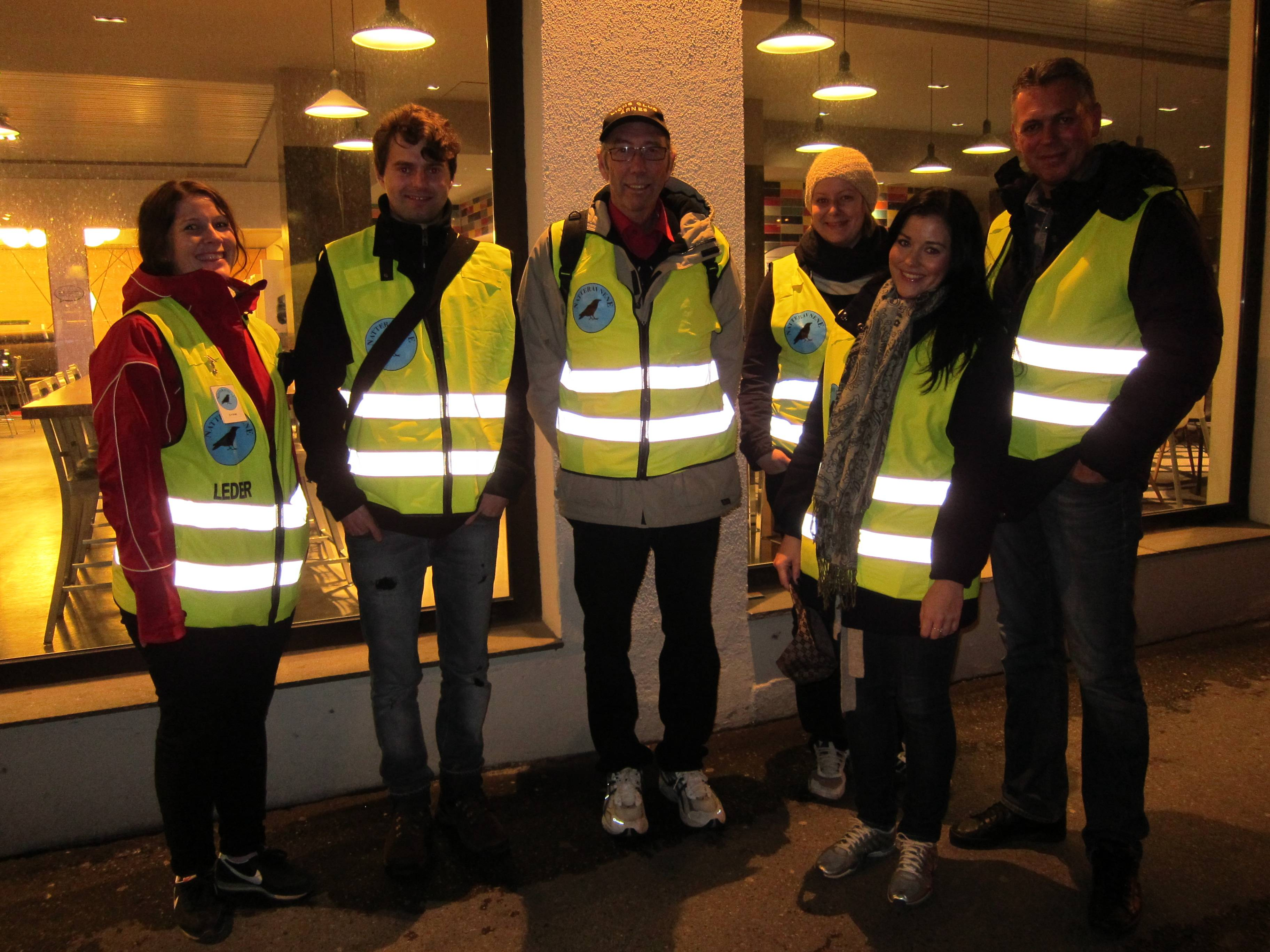 A group of volunteer's from the citizen's guards "Natteravnene" on patrol in Oslo on a late Friday evening, assisting citizen's and the Oslo Police